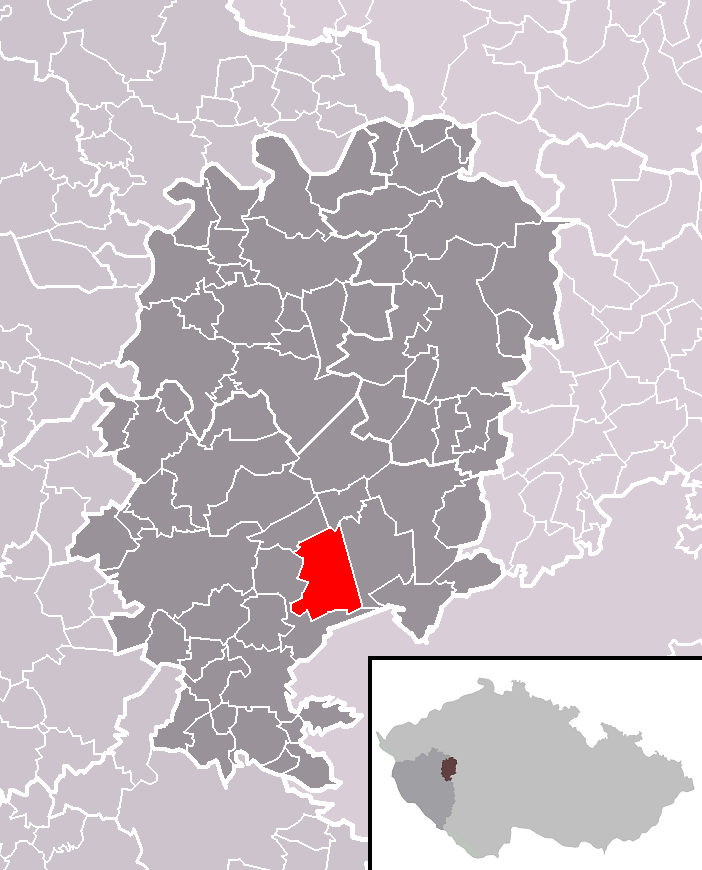 Location of Hůrky municipality within Rokycany District and within identical administrative area of Rokycany as a Municipality with Extended Competence.